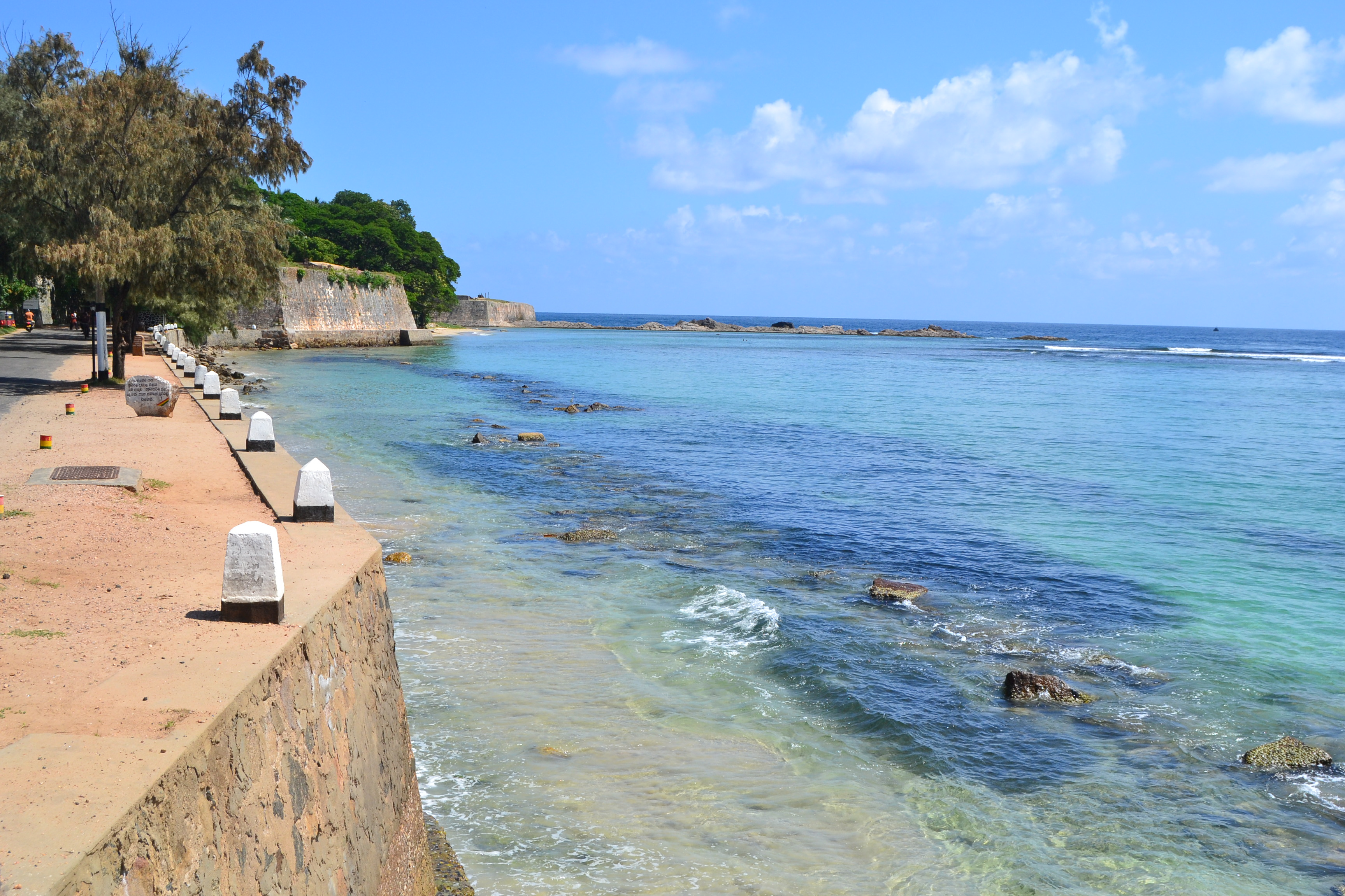 Fort Fredrick in Trincomalee, Sri Lanka